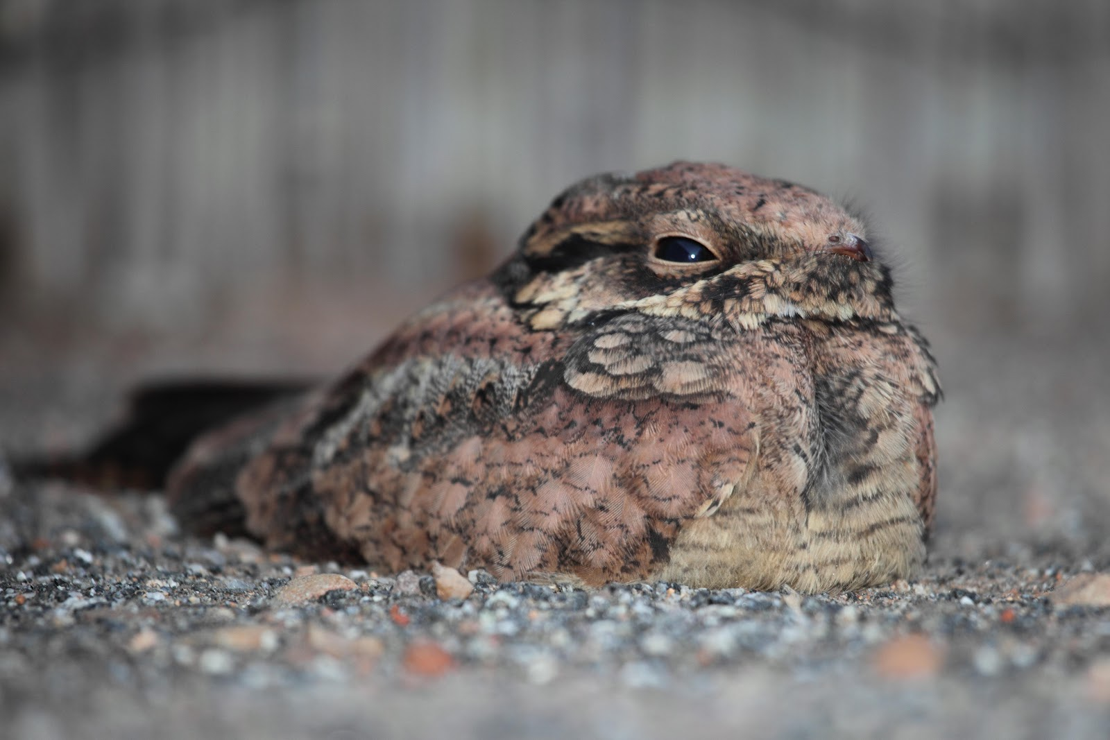 Spotted Nightjar (Eurostopodus argus), Northern Territory, Australia